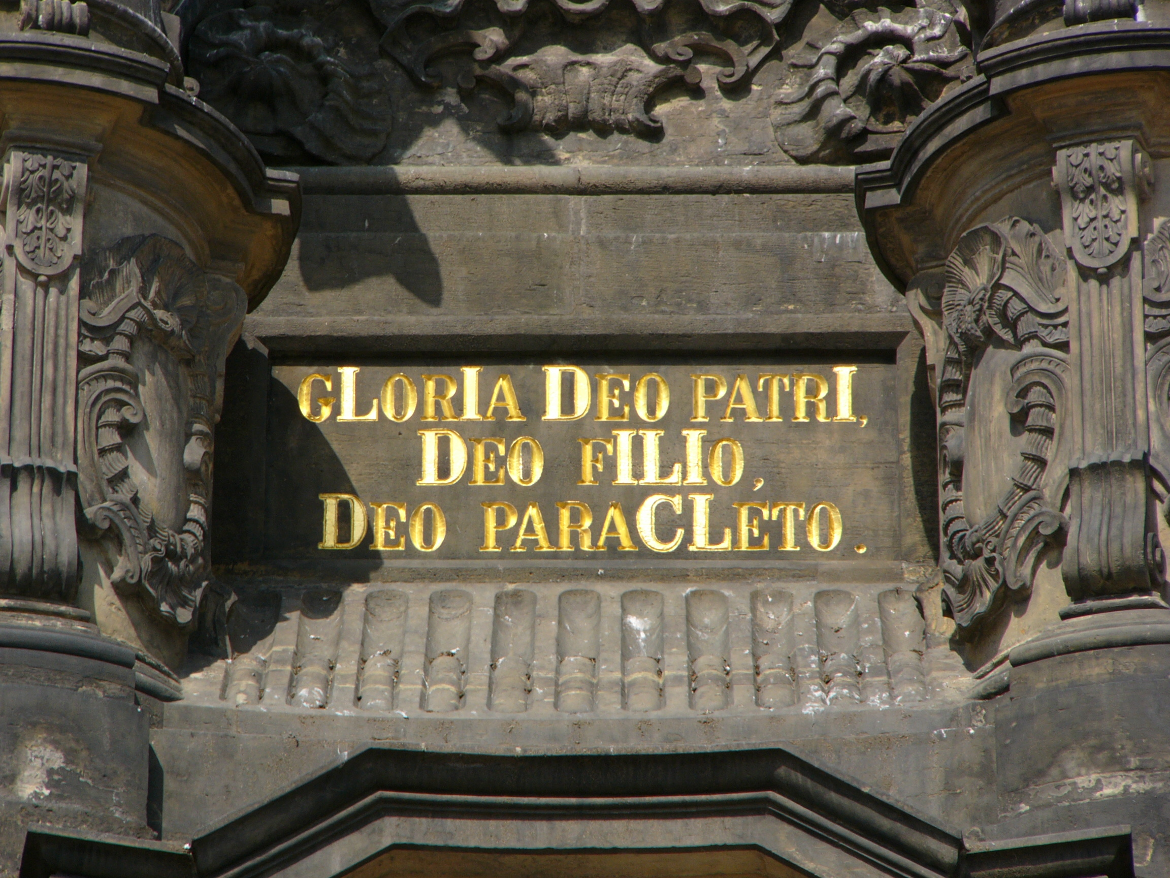 Chronogram at south on the Holy Trinity Column in Olomouc in Olomouc (Czech Republic).